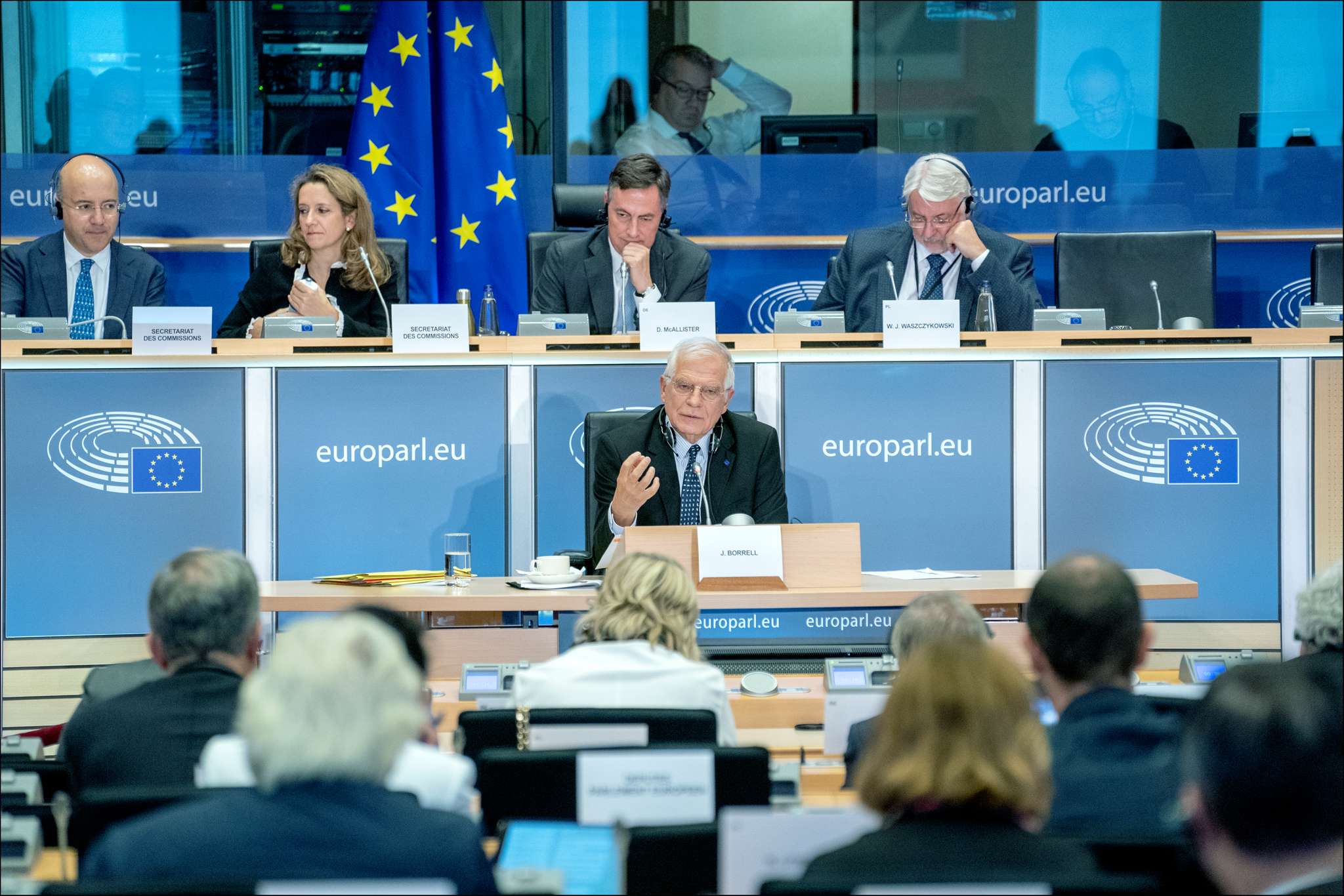 Before the European Parliament can vote the new European Commission led by Ursula von der Leyen into office, parliamentary committees will assess the suitability of commissioners-designate. On 23-26 May, more than 200,000,000 people in 28 EU countries went to the polls to elect members of the European Parliament, giving them a strong democratic mandate, including voting into office the new European Commission and examining the competencies and abilities of its commissioners-designate. Elected members of the European Parliament will also listen to their ideas and will assess their willingness to take concrete actions on the issues that Europeans care about. Each candidate commissioner is invited for a live-streamed, three-hour hearing in front of the committee or committees responsible for their proposed portfolio. The hearings will take place between Monday 30 September and Tuesday 8 October. This photo is free to use under Creative Commons license CC-BY-4.0 and must be credited: "CC-BY-4.0: © European Union 2019 – Source: EP". No model release form if applicable. For bigger HR files please contact: webcom-flickr(AT)